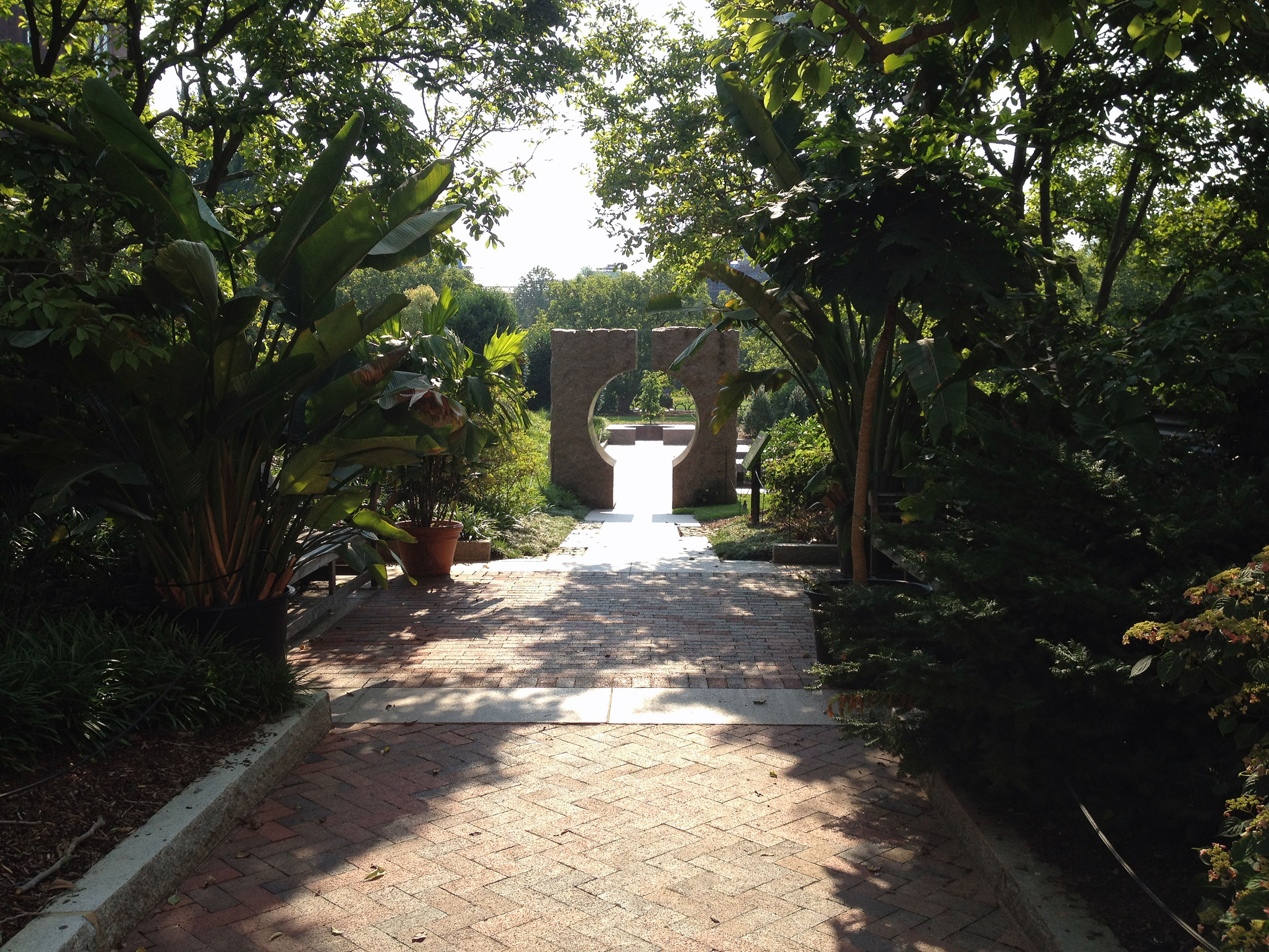 The Moongate Garden, within the Smithsonian Institution's Enid A. Haupt Garden